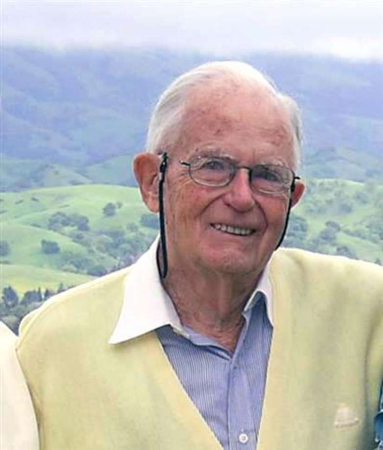 John A. Nejedly at his home in Walnut Creek with Mt. Diablo in the background.